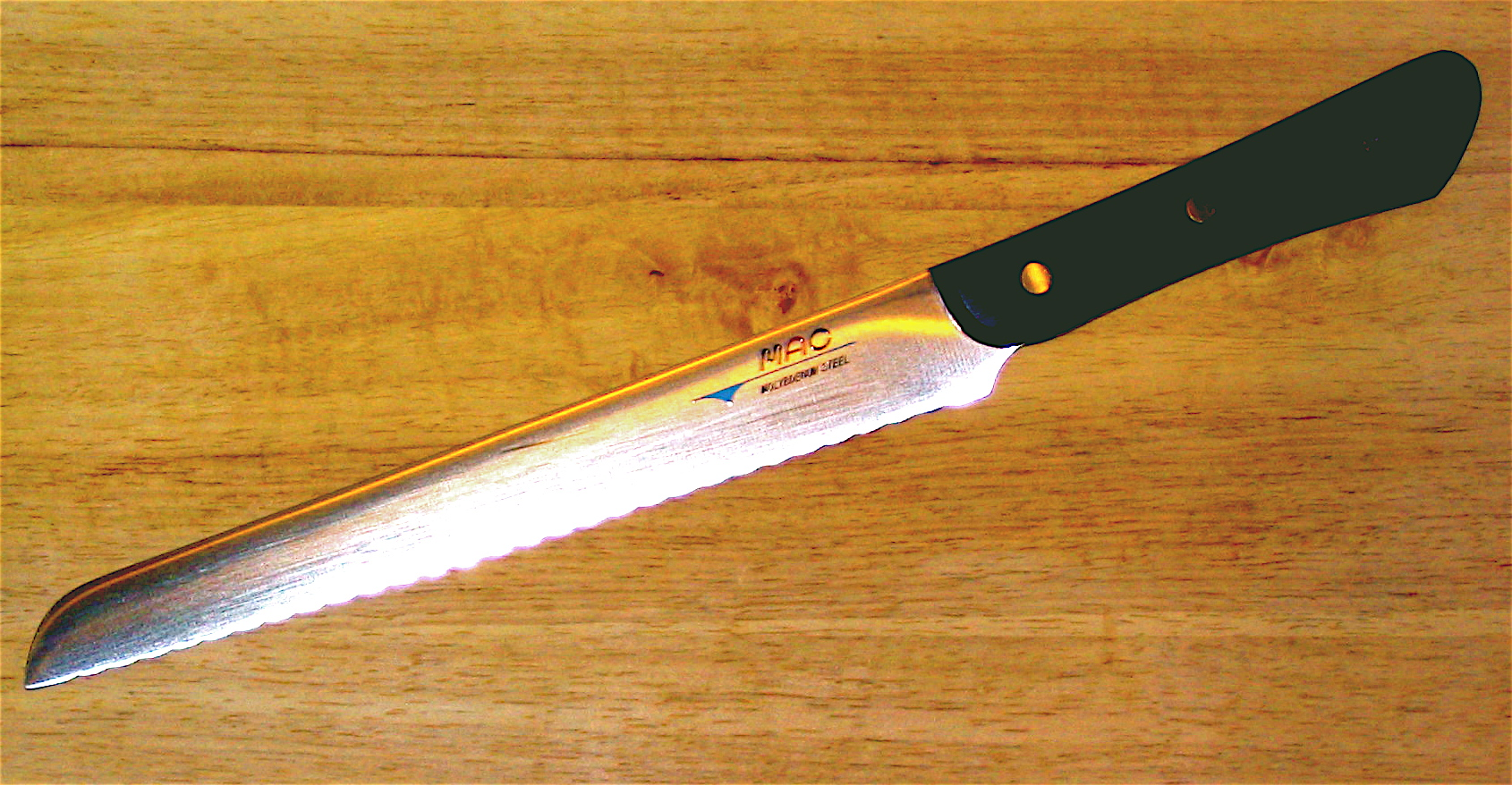 An 8 inch serrated bread knife.